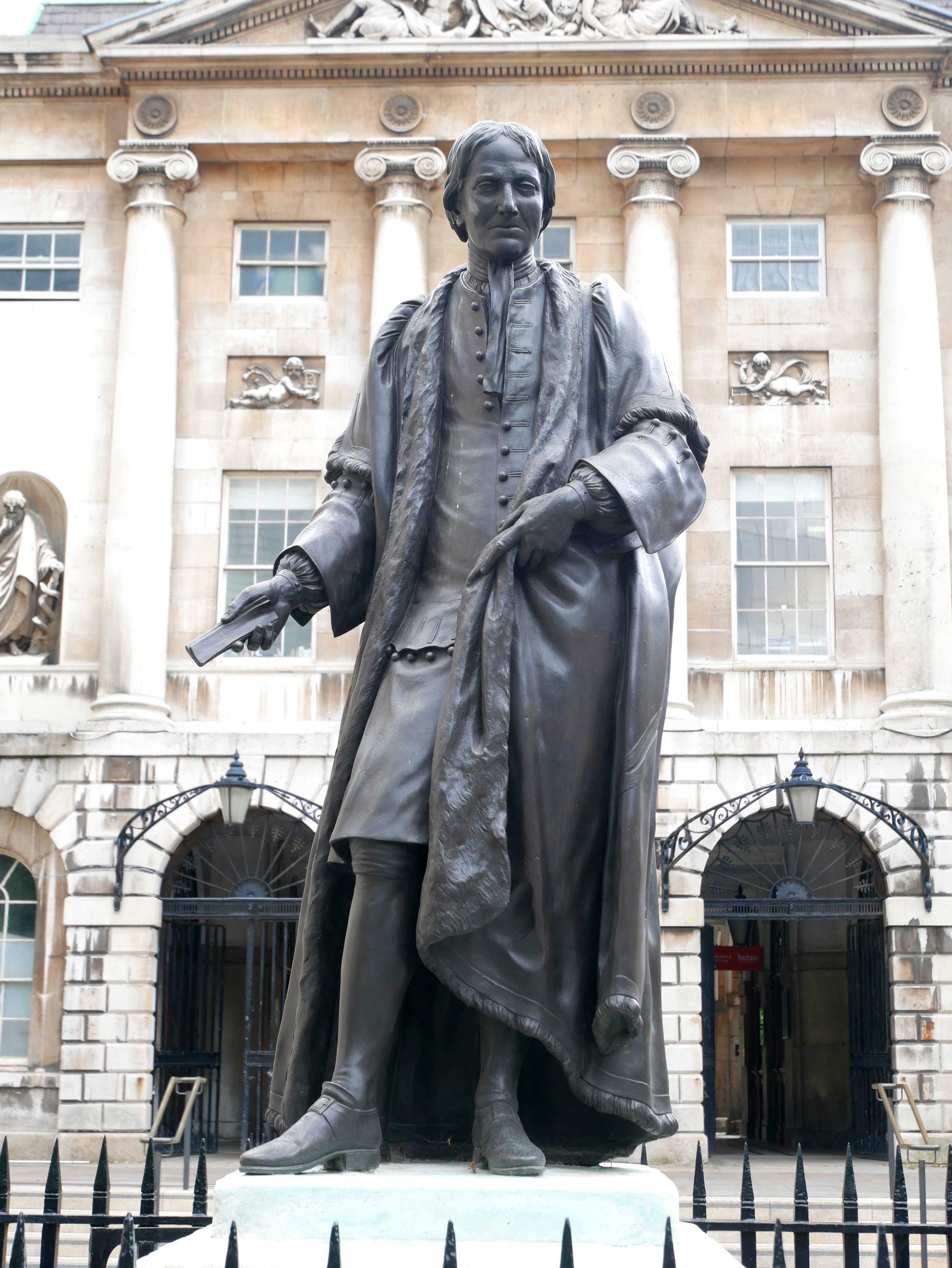 The northern side of the Thomas Guy statue at Guys Hospital, London Borough of Southwark.